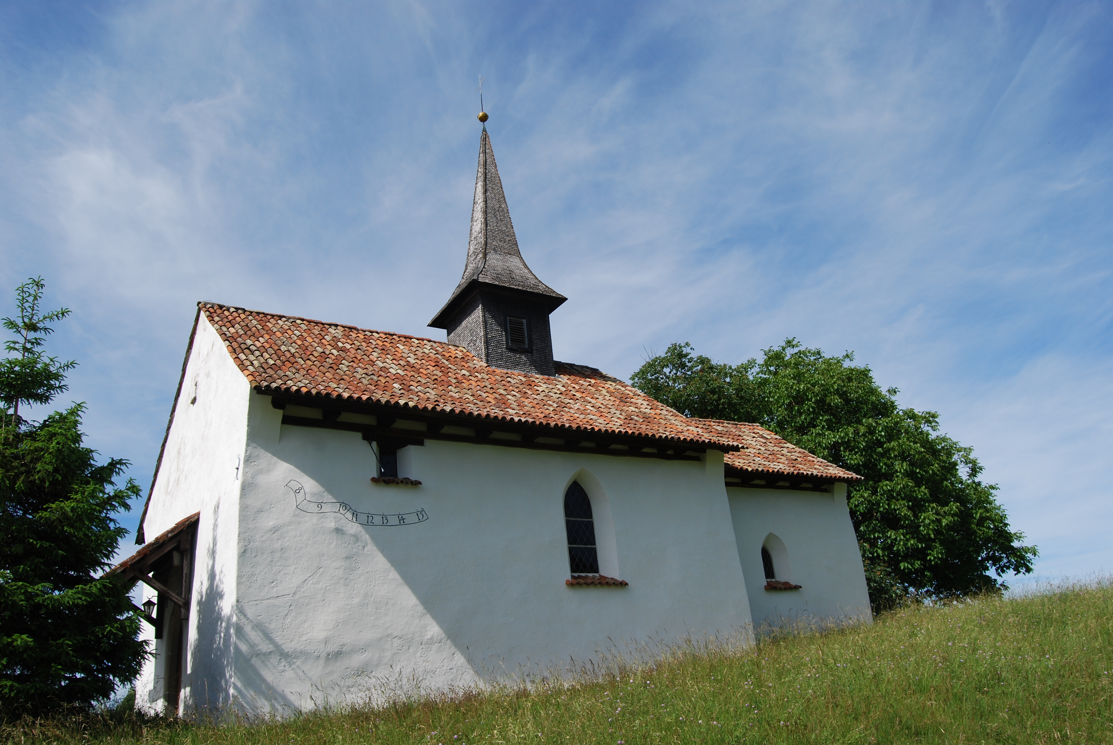 Catholic chapel of Saint Michael in Braunau, canton of Thurgovia, Switzerland